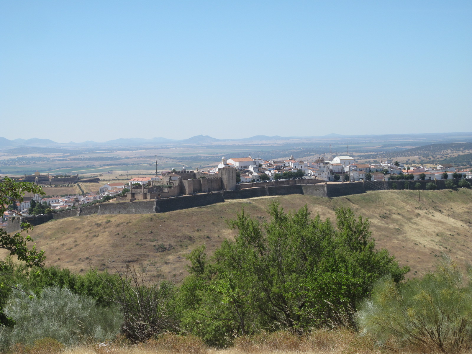 This file was uploaded for Wiki Loves Monuments in Portugal with the unique identifier 70353.